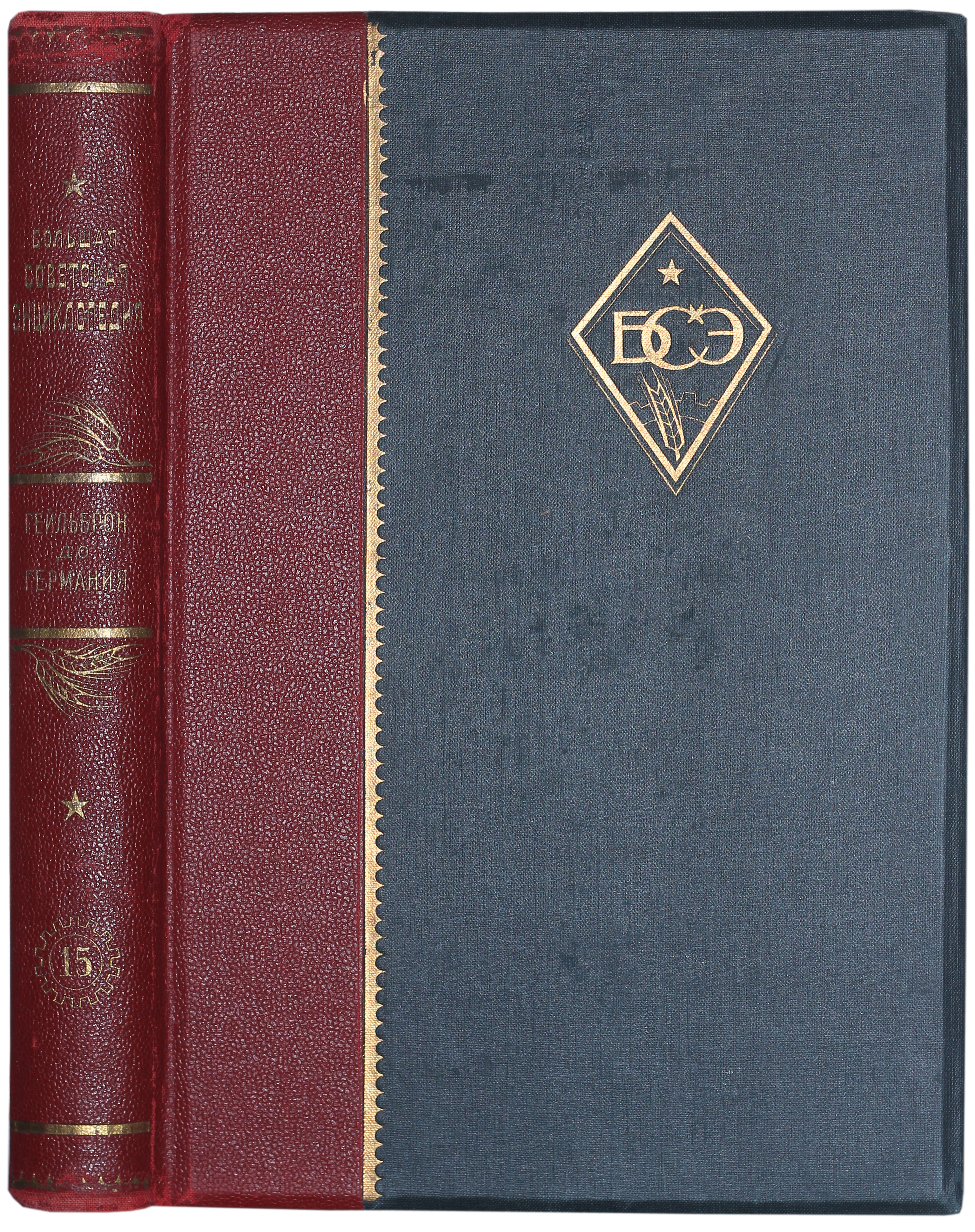 Great Soviet Encyclopedia - first edition